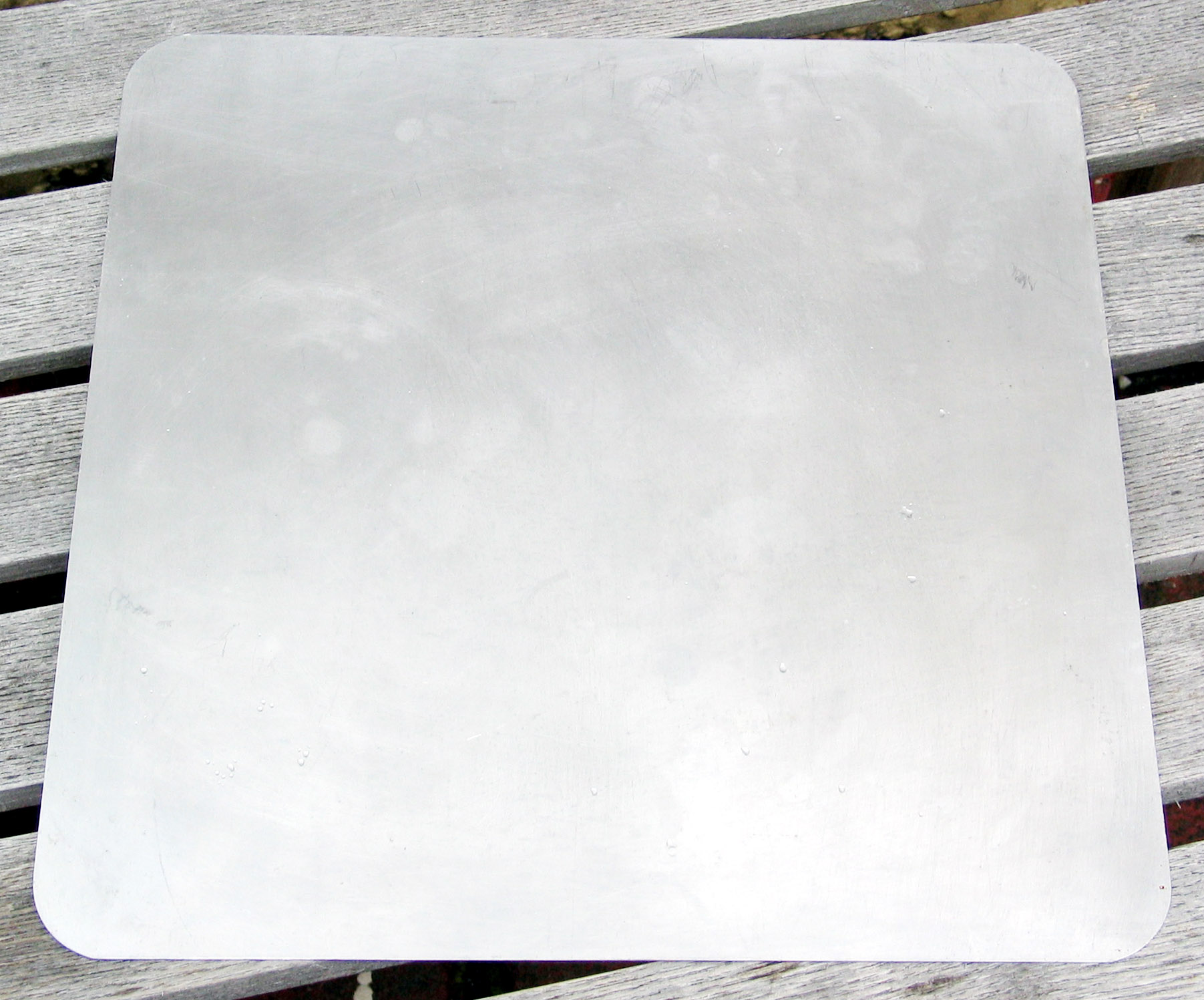 This is an oven tray (also known as a baking sheet).